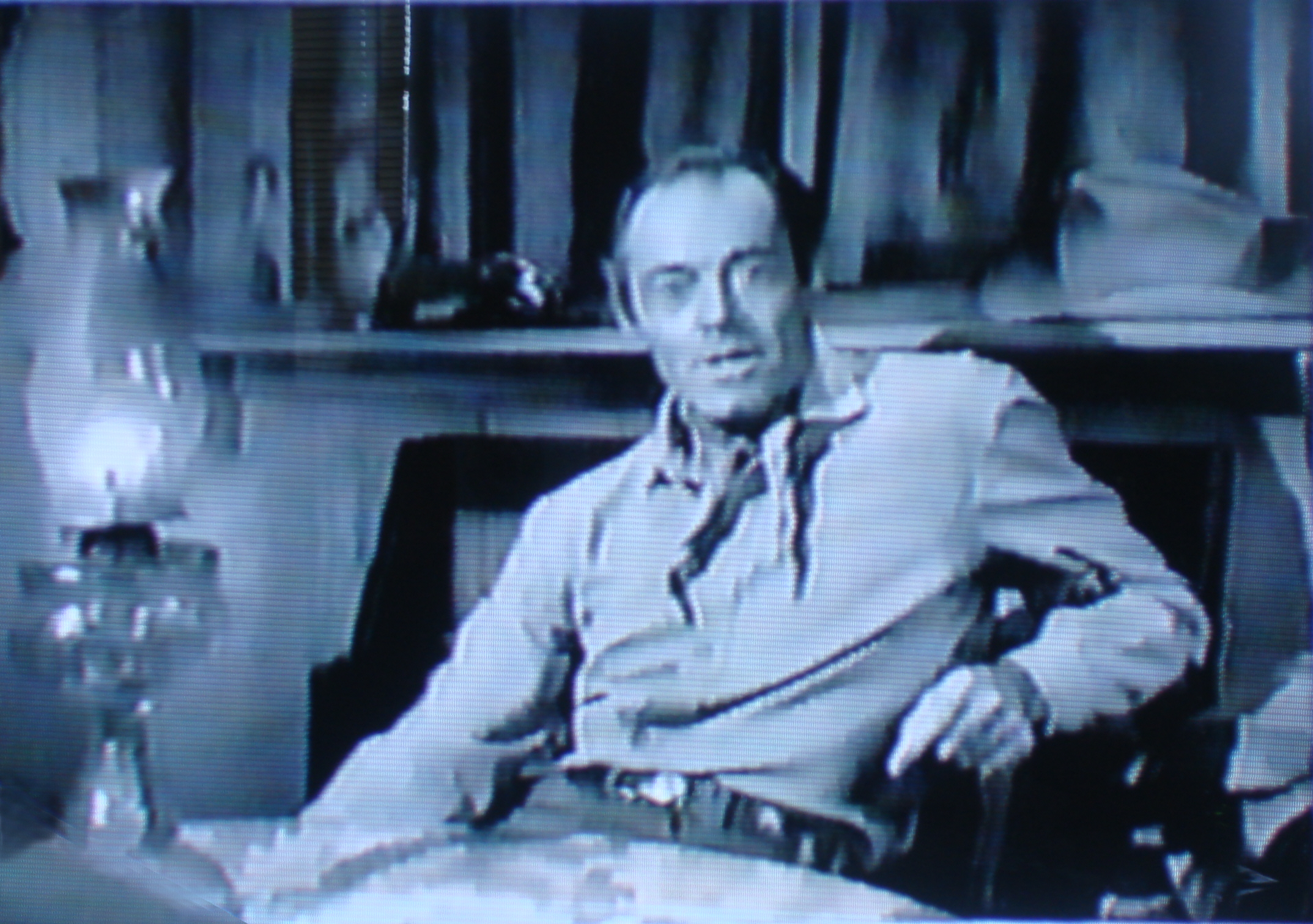 Cropped screenshot of Henry Fonda from the Trailer The Tin Star (1957)